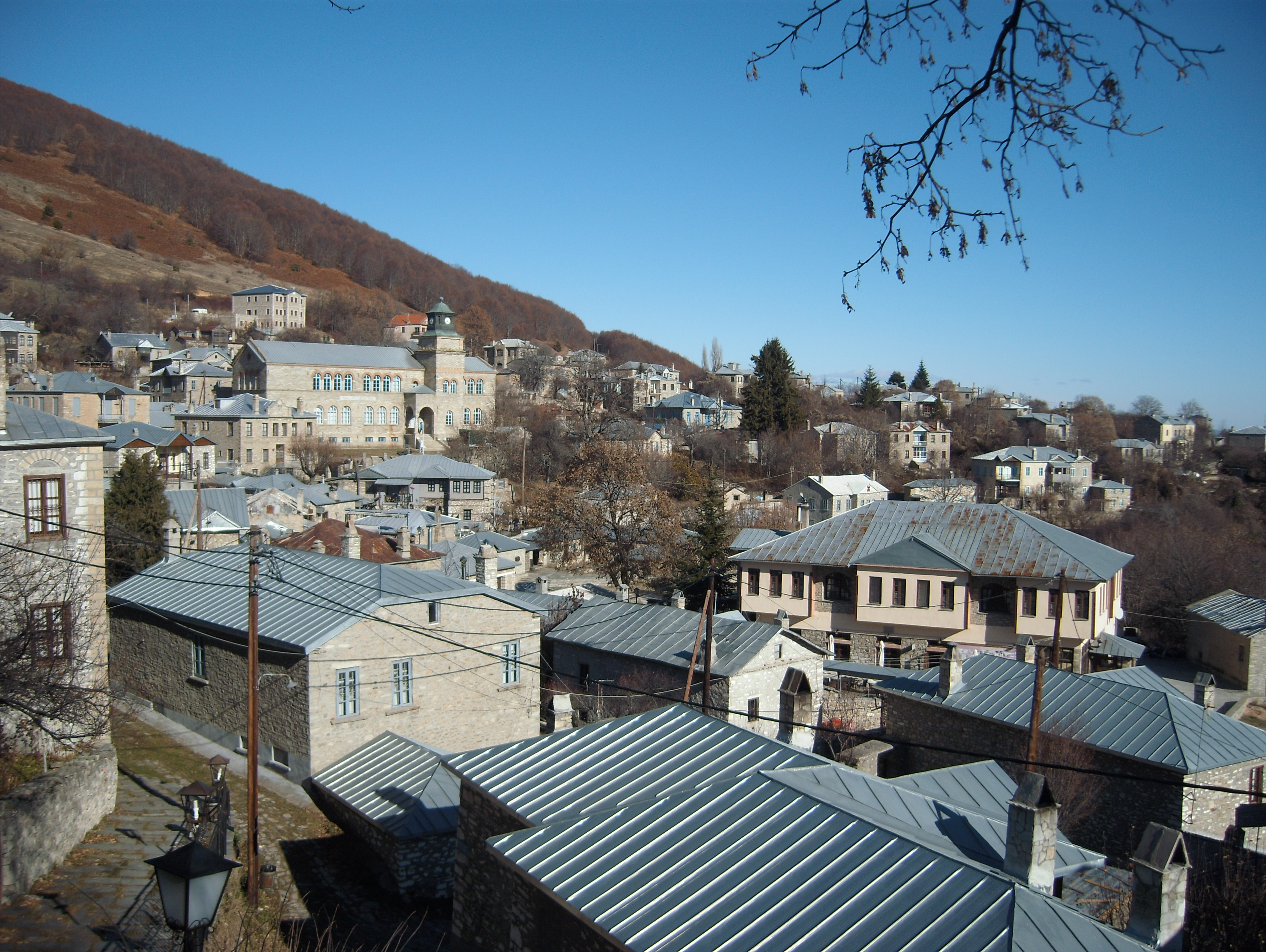 Neveska View from the Church